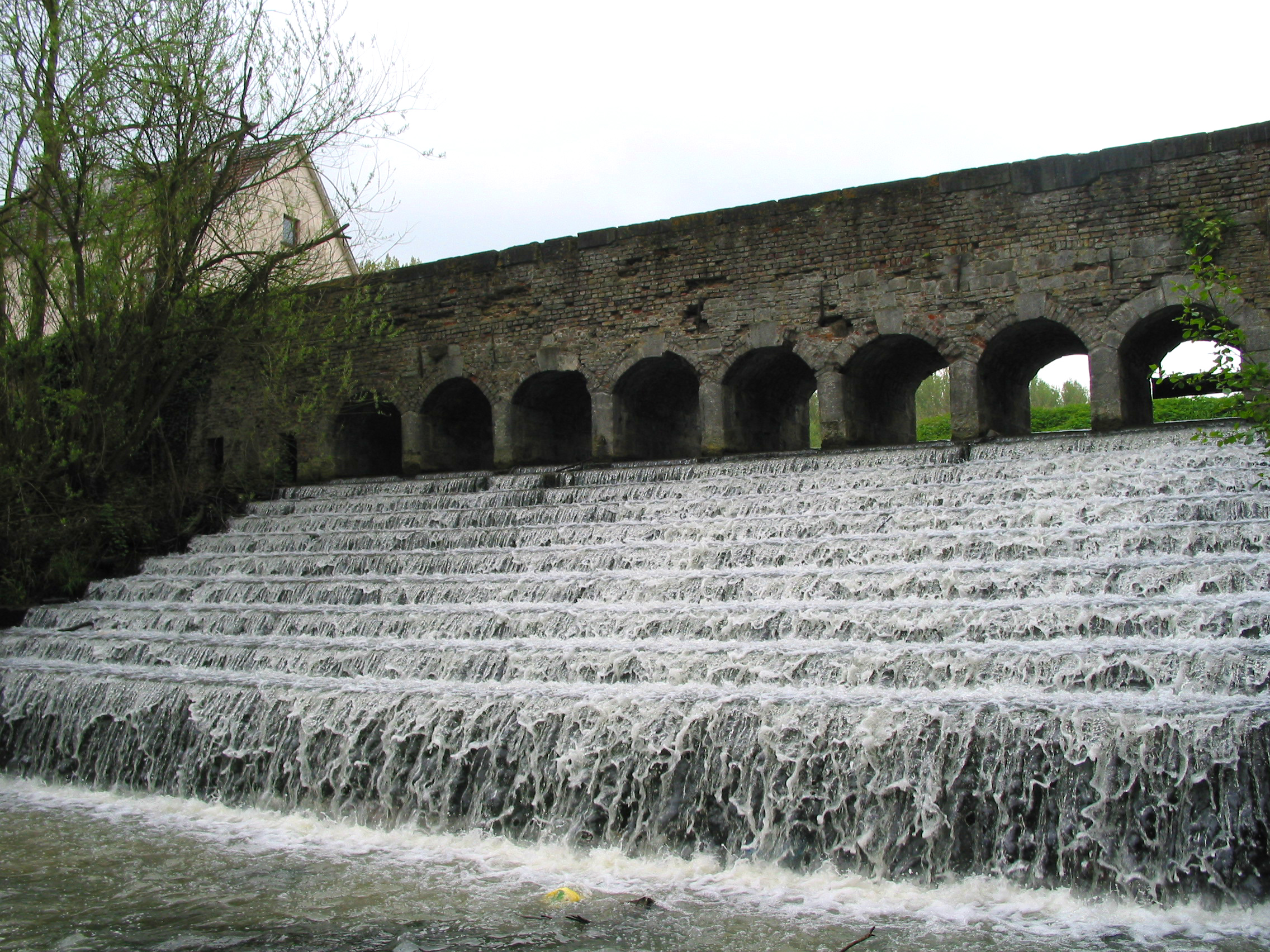 Hyon (Belgium), "Moulin-au-Bois" the old dam-bridge on the Trouille river (XVIth century).